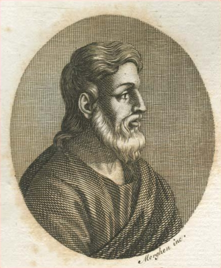 Pythagorean philosopher Ocello Lucano, portrait from the book "Ocello Lucano filosofo pittagorico Lucania" (1814) by Andrea Mazzarella (1764–1823)